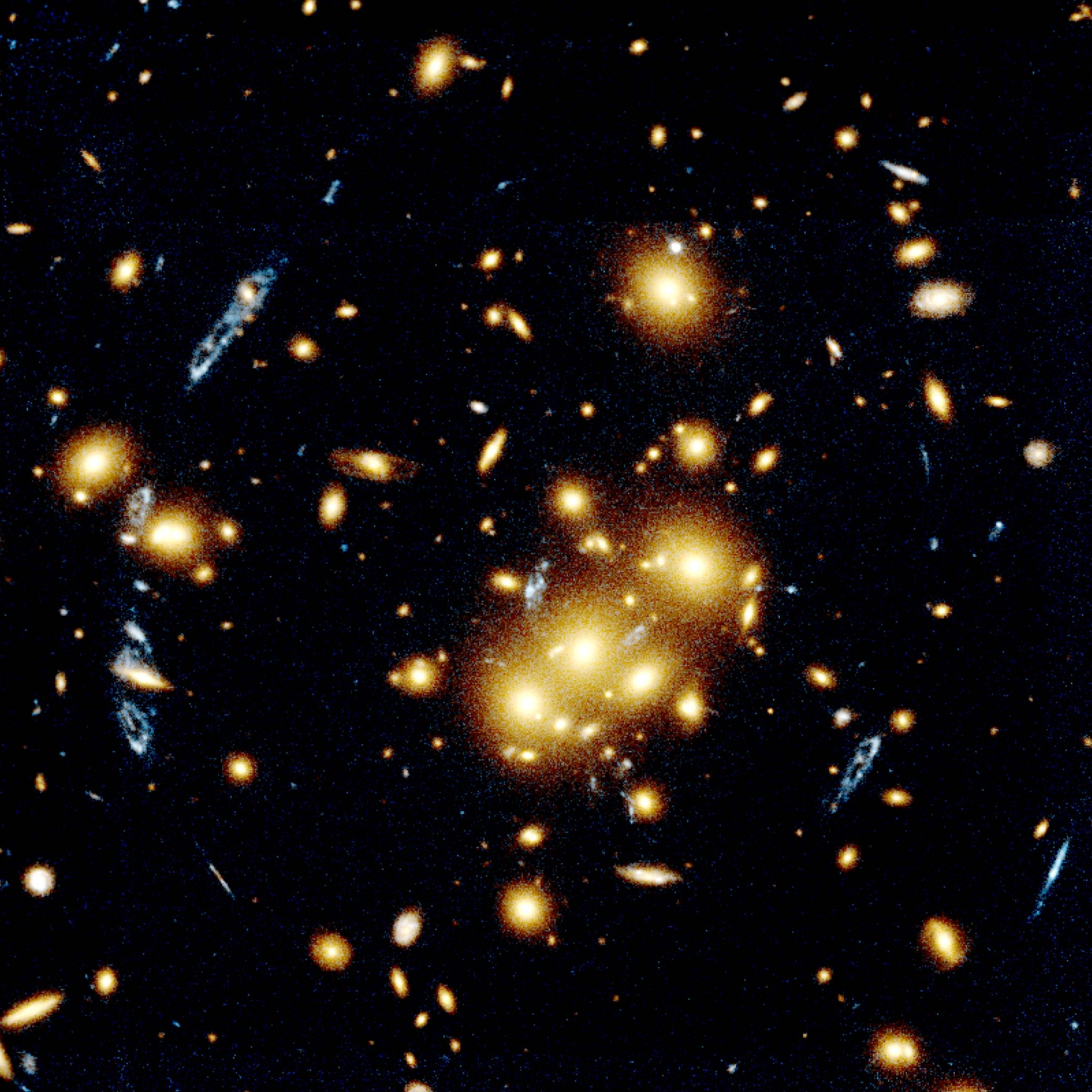 Gravitational lensing This Hubble Space Telescope image shows several blue, loop-shaped objects that actually are multiple images of the same galaxy. They have been duplicated by the gravitational lens of the cluster of yellow, elliptical and spiral galaxies - called 0024+1654 - near the photograph's center. farther away. Though the gravitational light-bending process is not new,no claim to copyright is being asserted by STScI and it may be freely used as in the public domain in accordance with NASA's contract. However, it is requested that in any subsequent use of this work NASA and STScI be given appropriate acknowledgement.” PREPARED BY Adrian Pingstone in December 2003.